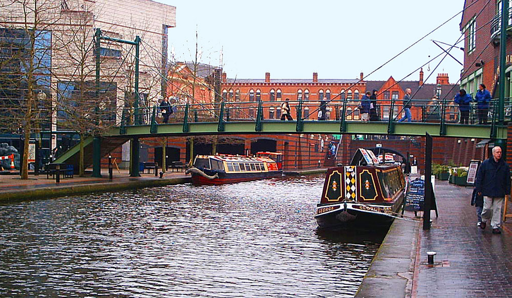 The Birmingham Canal Navigations Main Line Canal between the International Convention Centre (left), Brindleyplace (right), and Broad Street Tunnel (ahead) in central Birmingham, England. A part of the canal originally called Deep Cutting. Photo by G-Man Nov 2004.